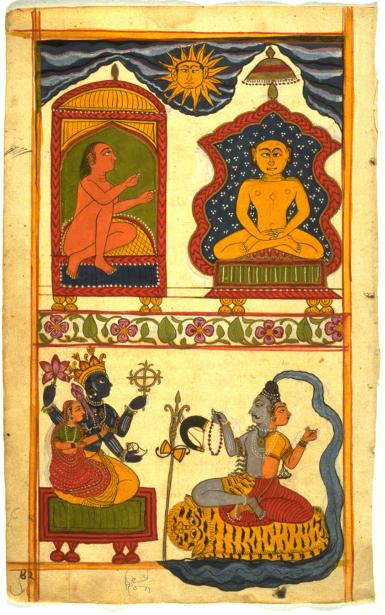 LEFT Jain Tirthankara and Worshippers RIGHT Jain Tirthankar and Hindu Gods